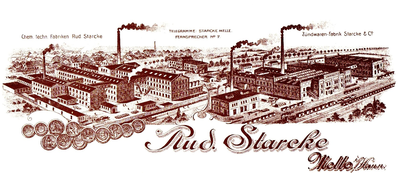 own file